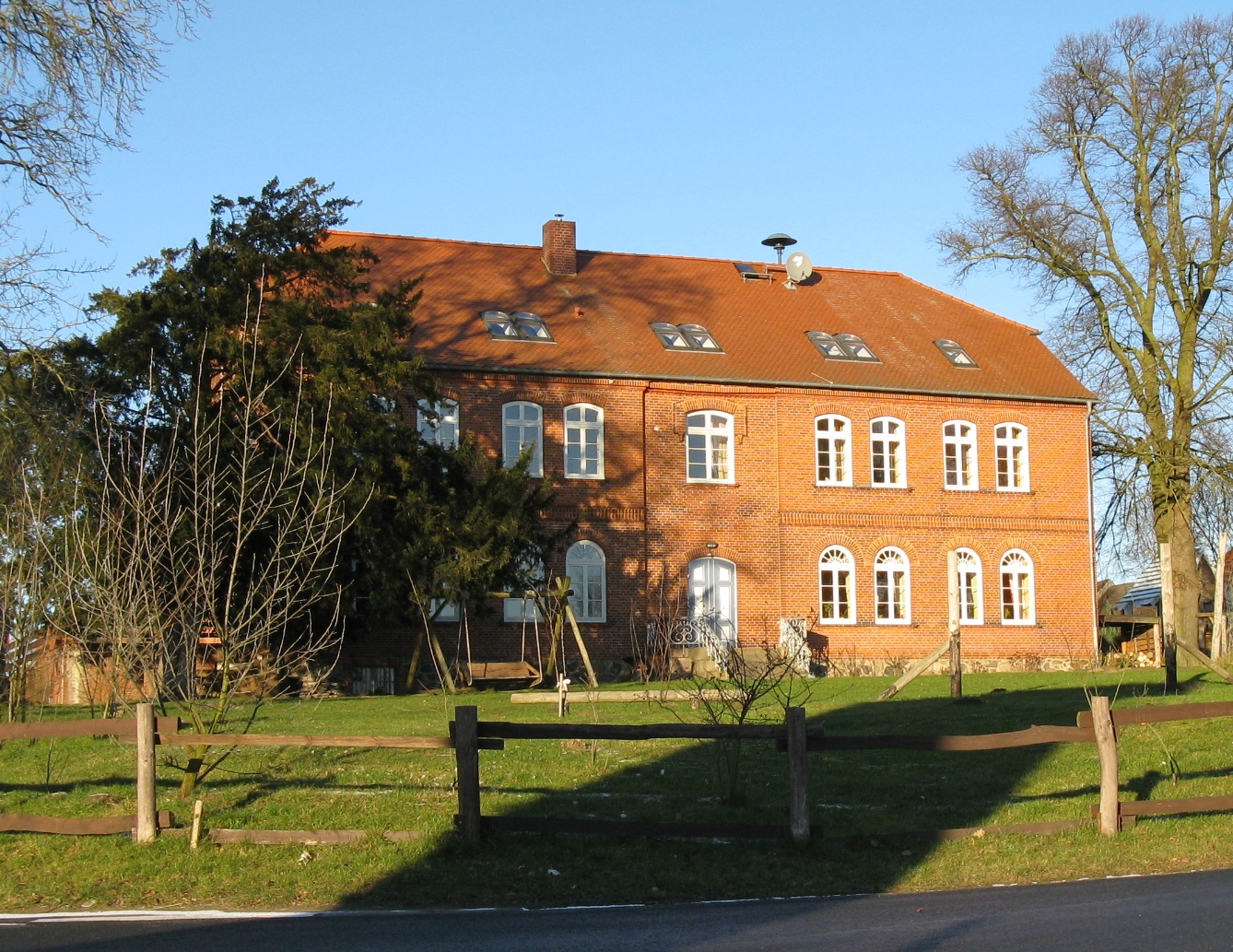 Manor house in Meetzen, Mecklenburg-Vorpommern, Germany